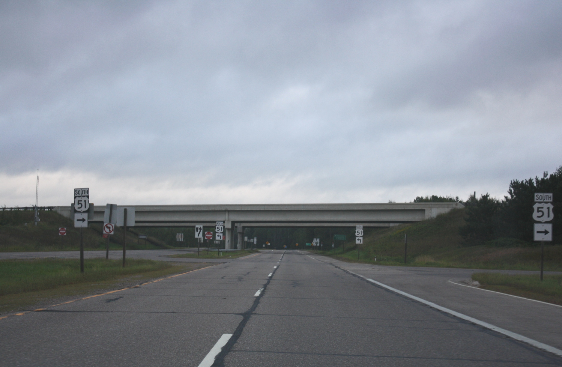 Looking east at the junction of U.S Route 8 and U.S. Route 51 several miles (kilometers) north of Tomahawk, Wisconsin.